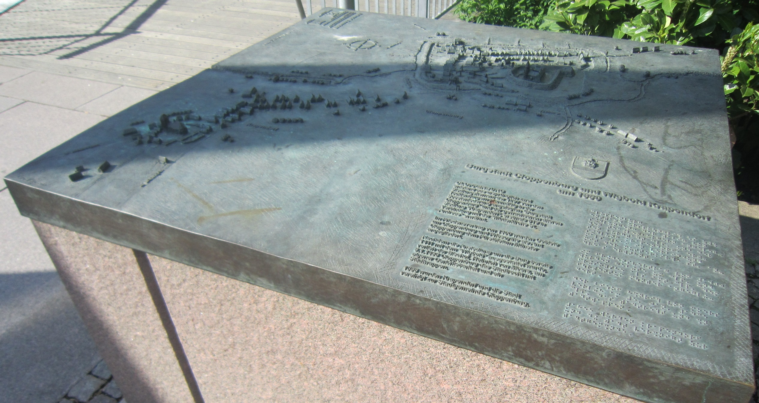 Urban model of Cloppenburg, including Krapendorf, in 1650 by Albert Bocklage